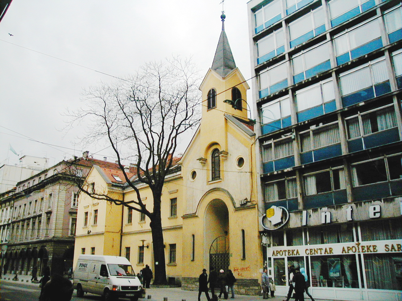 Church of st. Vincent in Sarajevo